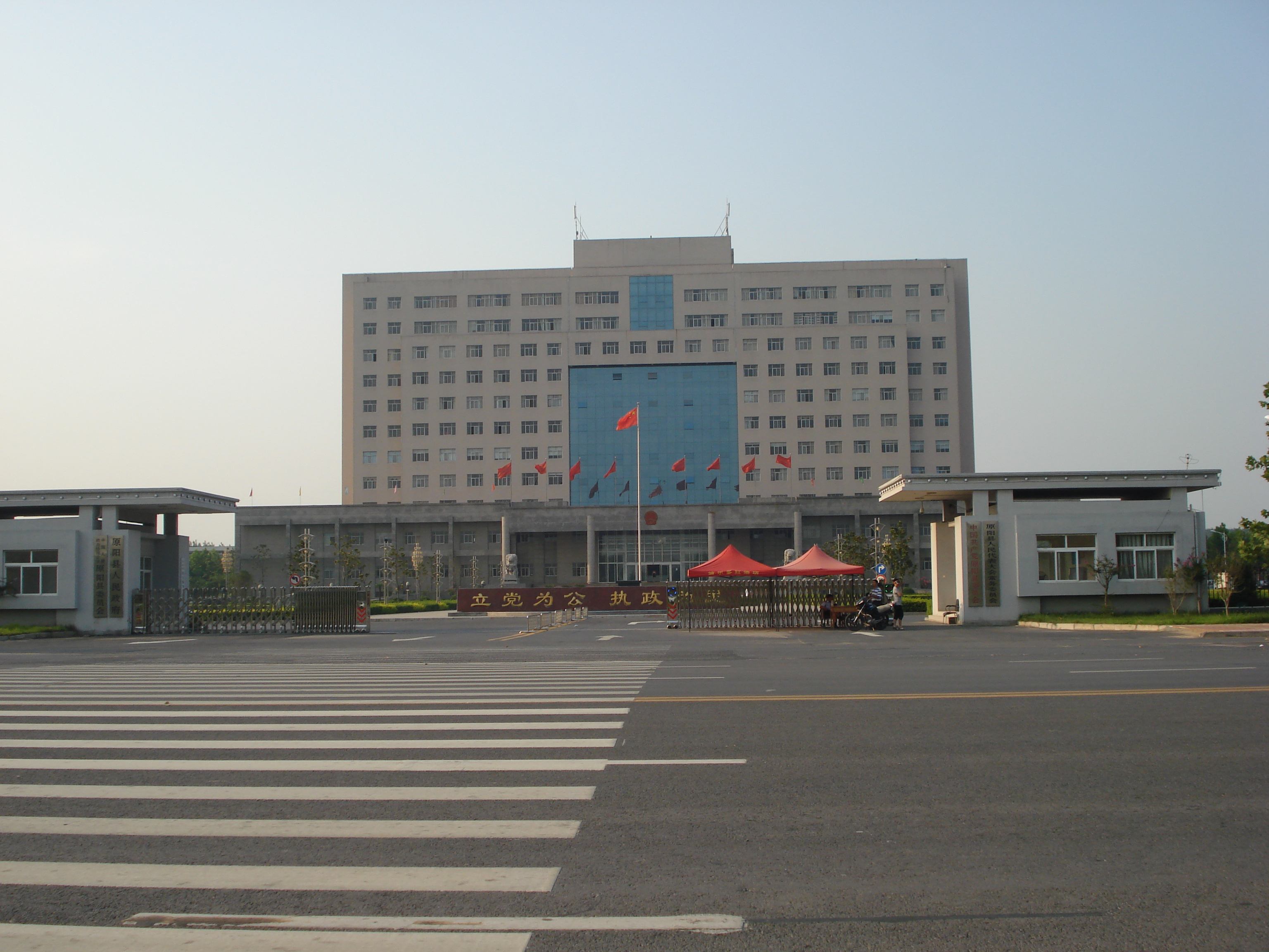 Yuanyang County Gov.